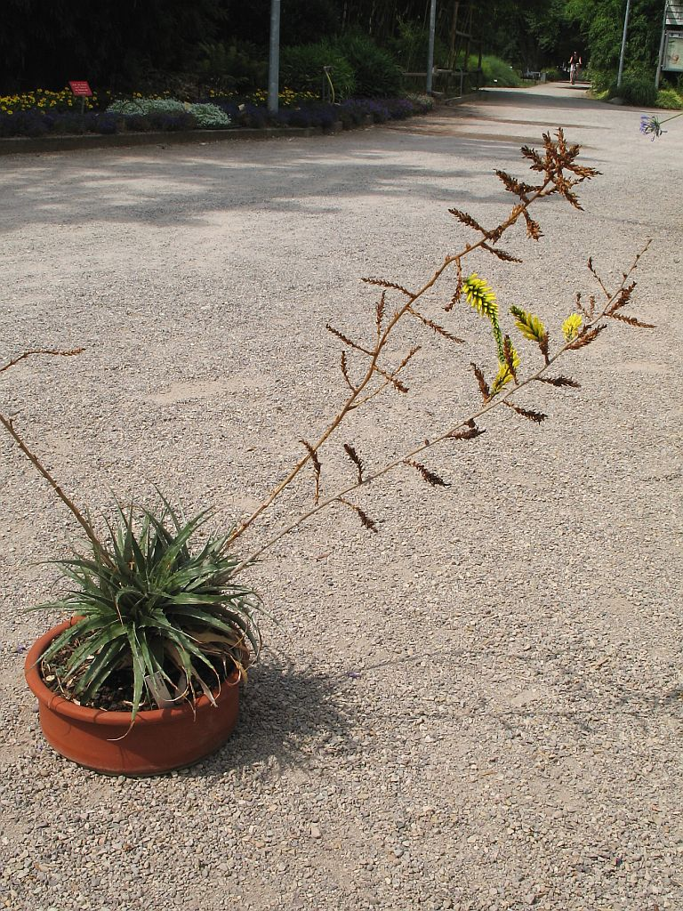 Deuterocohnia schreiteri in cultivation at the Botanical Garden of Heidelberg, Germany.